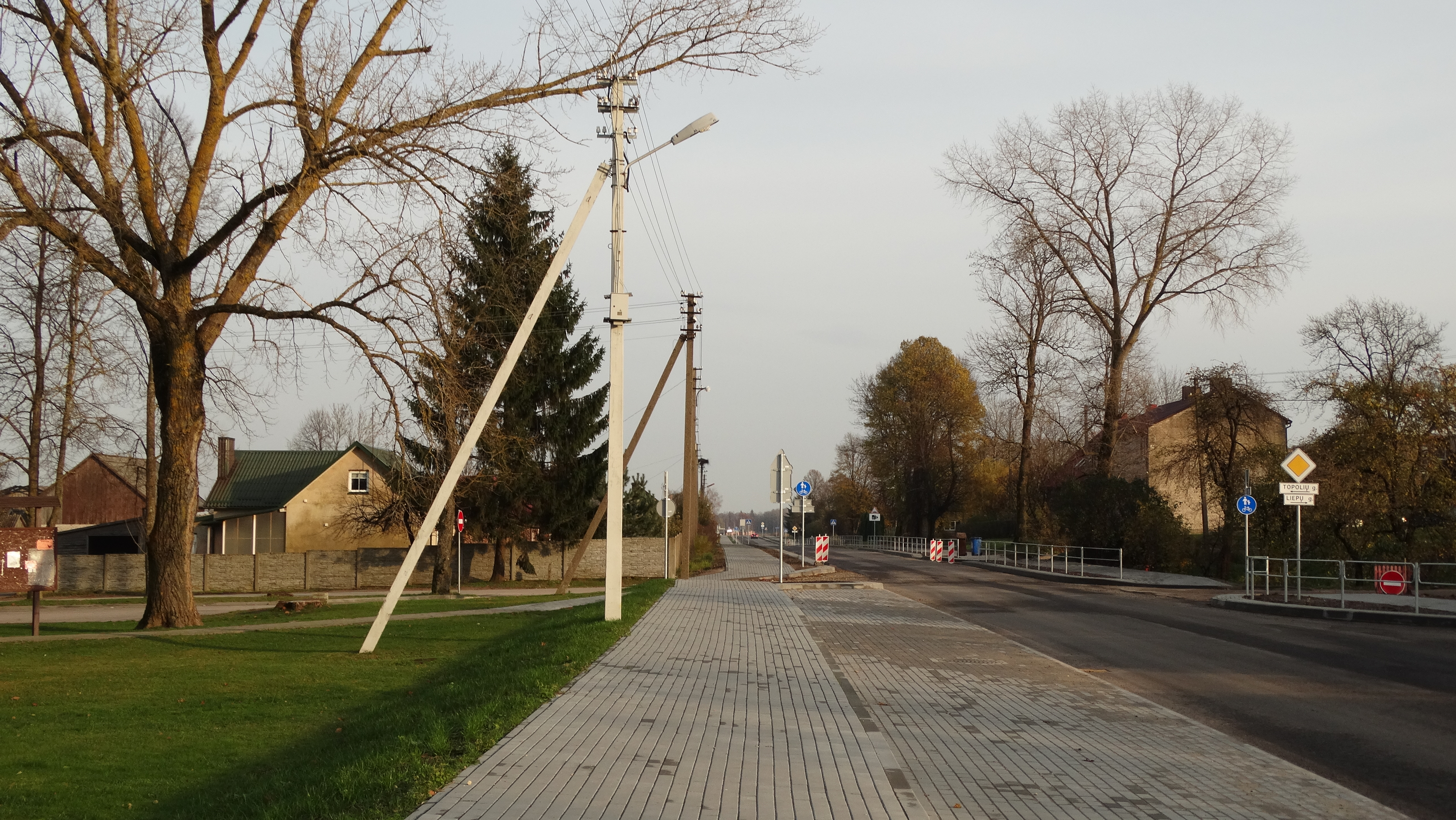 Lumpėnai, Pagėgiai Municipality, Lithuania